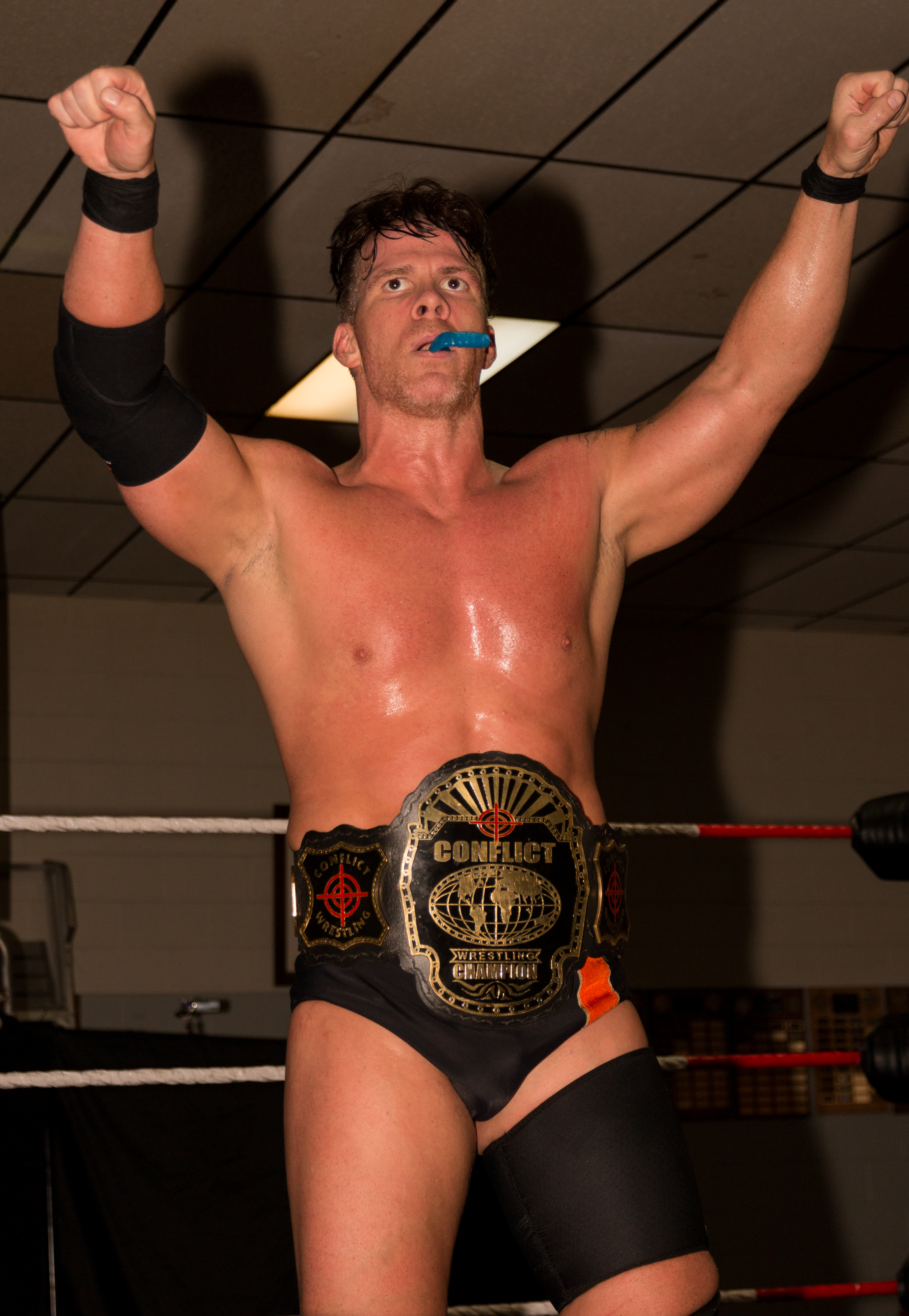 Independent wrestler Tyson Dux, posing with the freshly-won Conflict Wrestling championship belt around his waist.